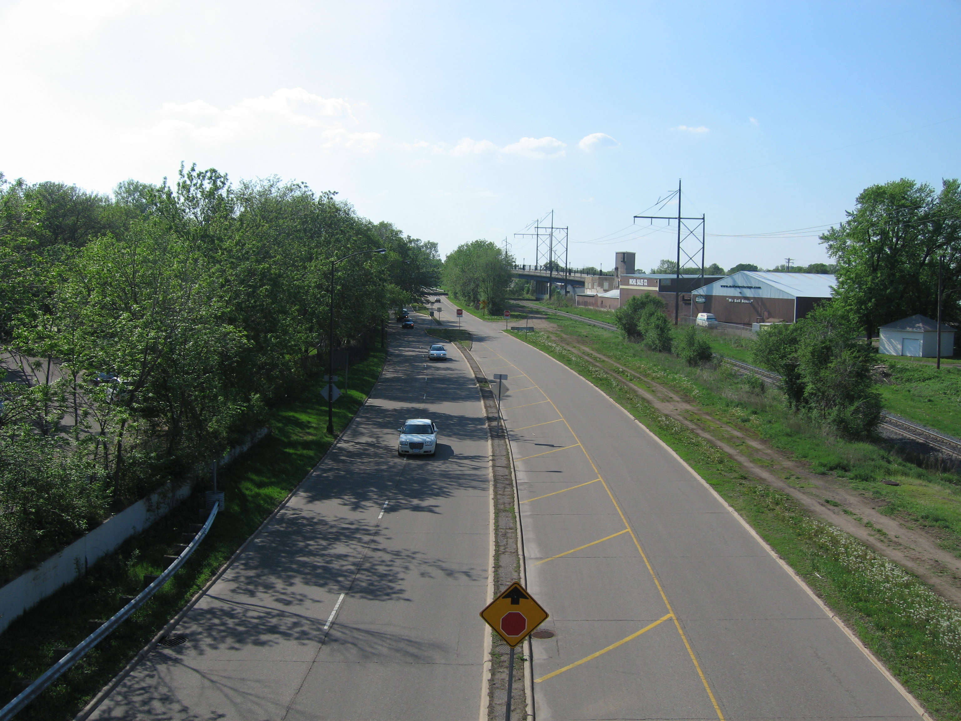 Ayd Mill Road in Saint Paul, looking toward the northwest terminus and the Harris Bridge from Hamline Ave. bridge.